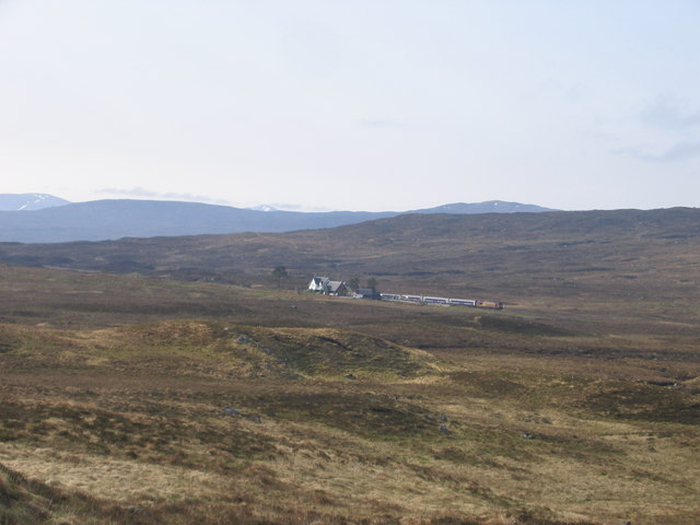 Corrour railway station Original description: Morning train leaving Corrour Station